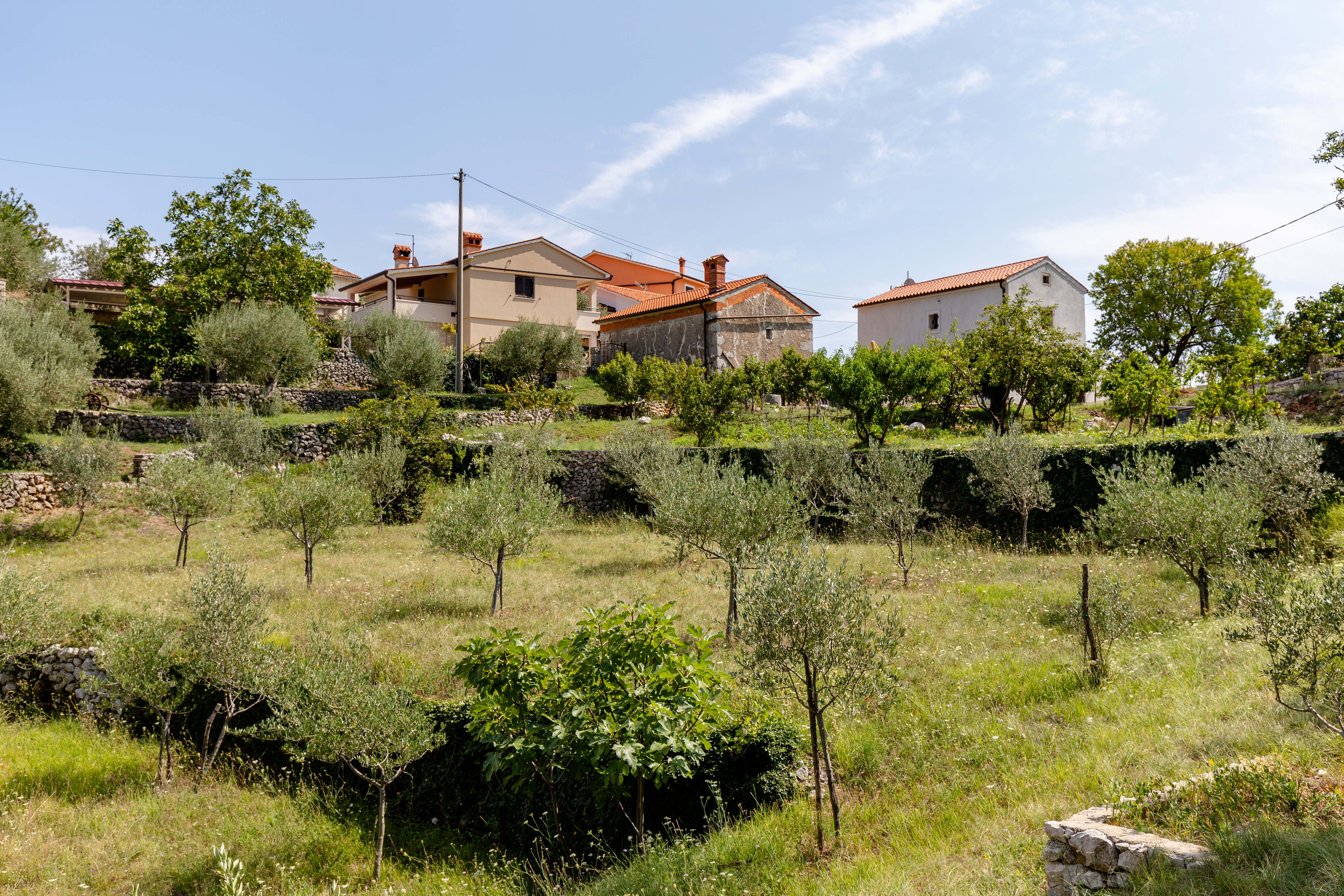 A small village Baći, Općina Kršan, county Istria, Croatia